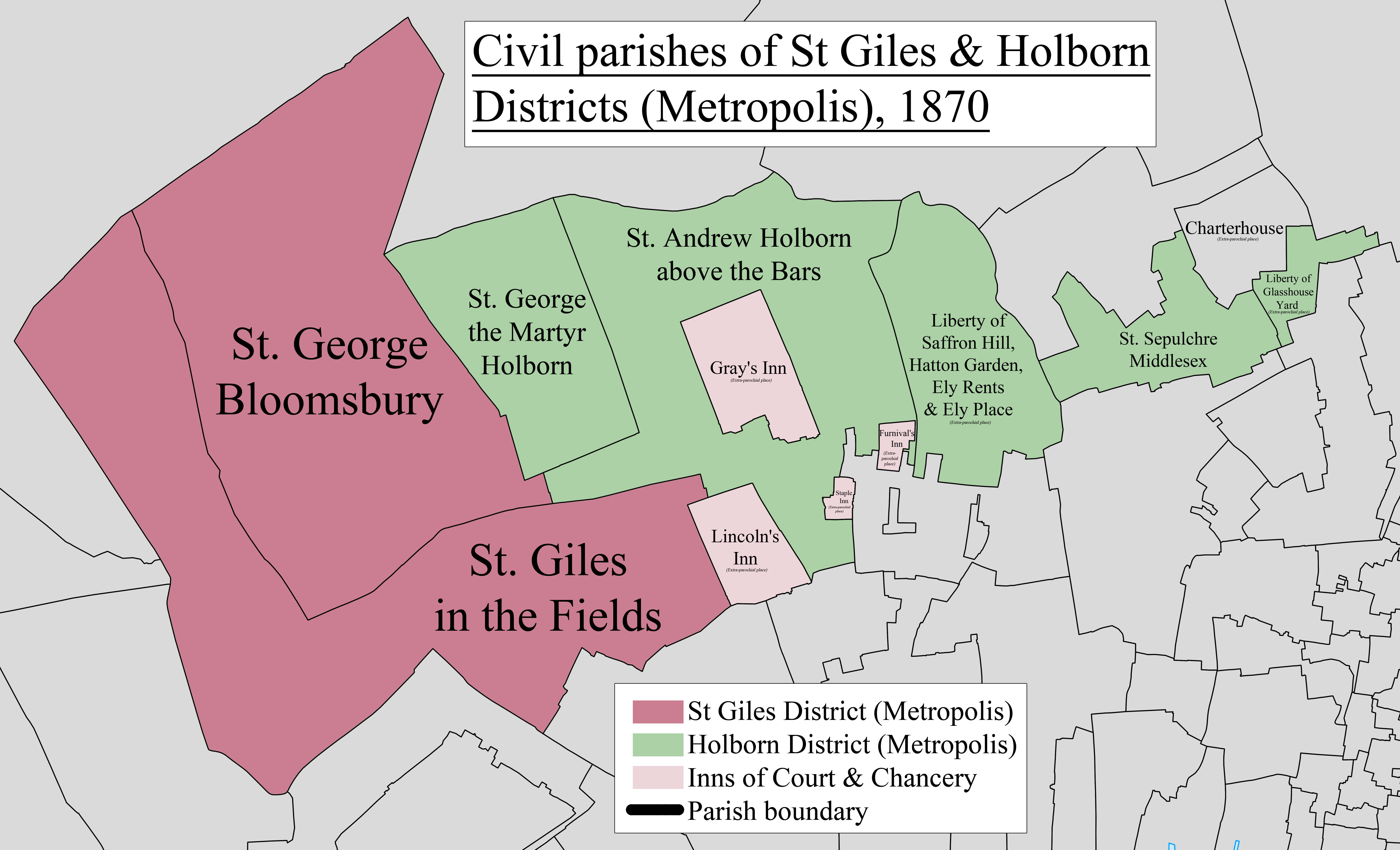 A map showing the civil parishes of the Metropolis districts of St. Giles and Holborn as they appeared in 1870. Based on the Ordnance Survey Town Plan of London (1871-76) at 1:1056 scale.